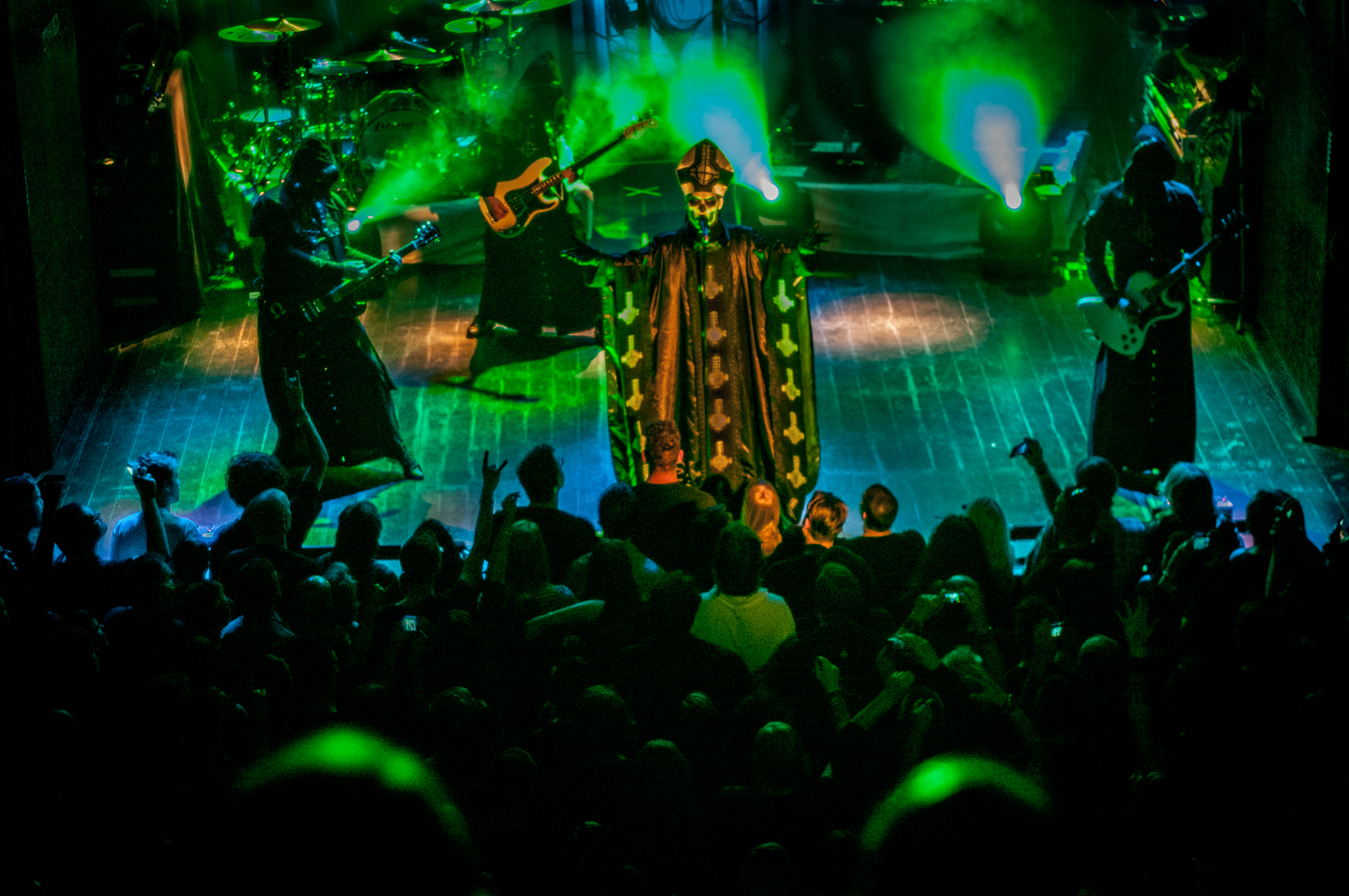 Swedish heavy metal band Ghost performing live in Utrecht.